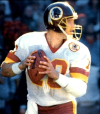 Washington Redskins quarterback Jay Schroeder pictured in an offensive play during the 1986 season.